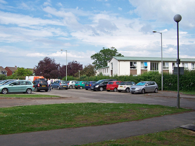 Raigmore Primary School The catchment area comprises Raigmore Estate and the married quarters at Cameron Barracks. The school roll is approximately 185 pupils from Nursery – P7. The school is located at the end of King Duncan's Road. The road is busy here at the end of the school day.